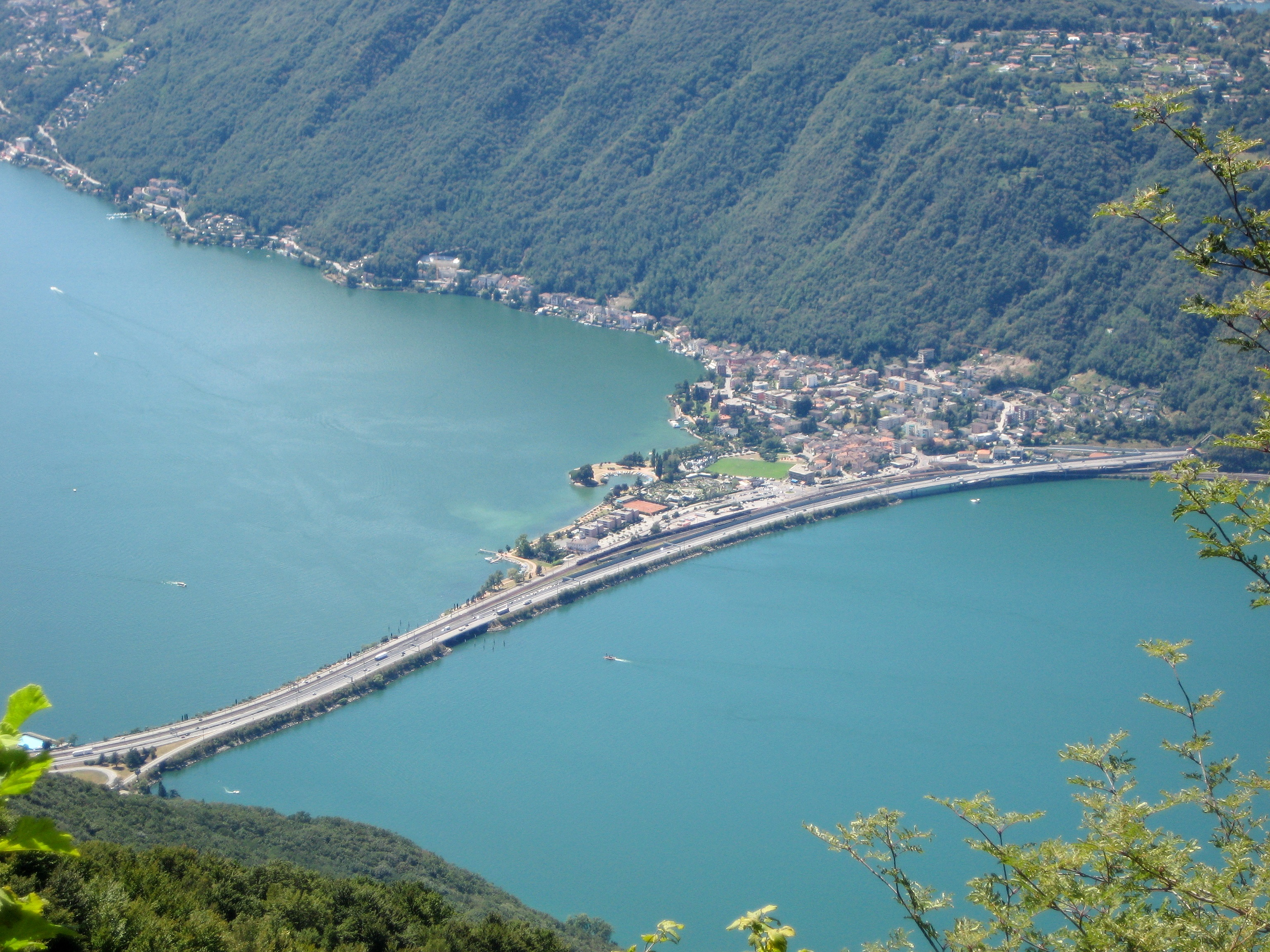 Ponte di Melide in the Lake Lugano seen from the summit of the Sighignola (Balcone d'Italia